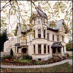 A photograph of Annandale House, home to the Tillson family and now Tillsonburg Museum.